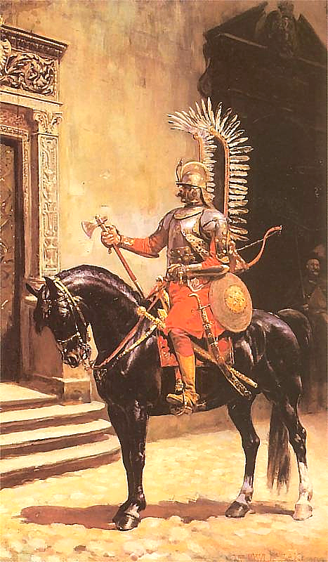 Hetman`s guard